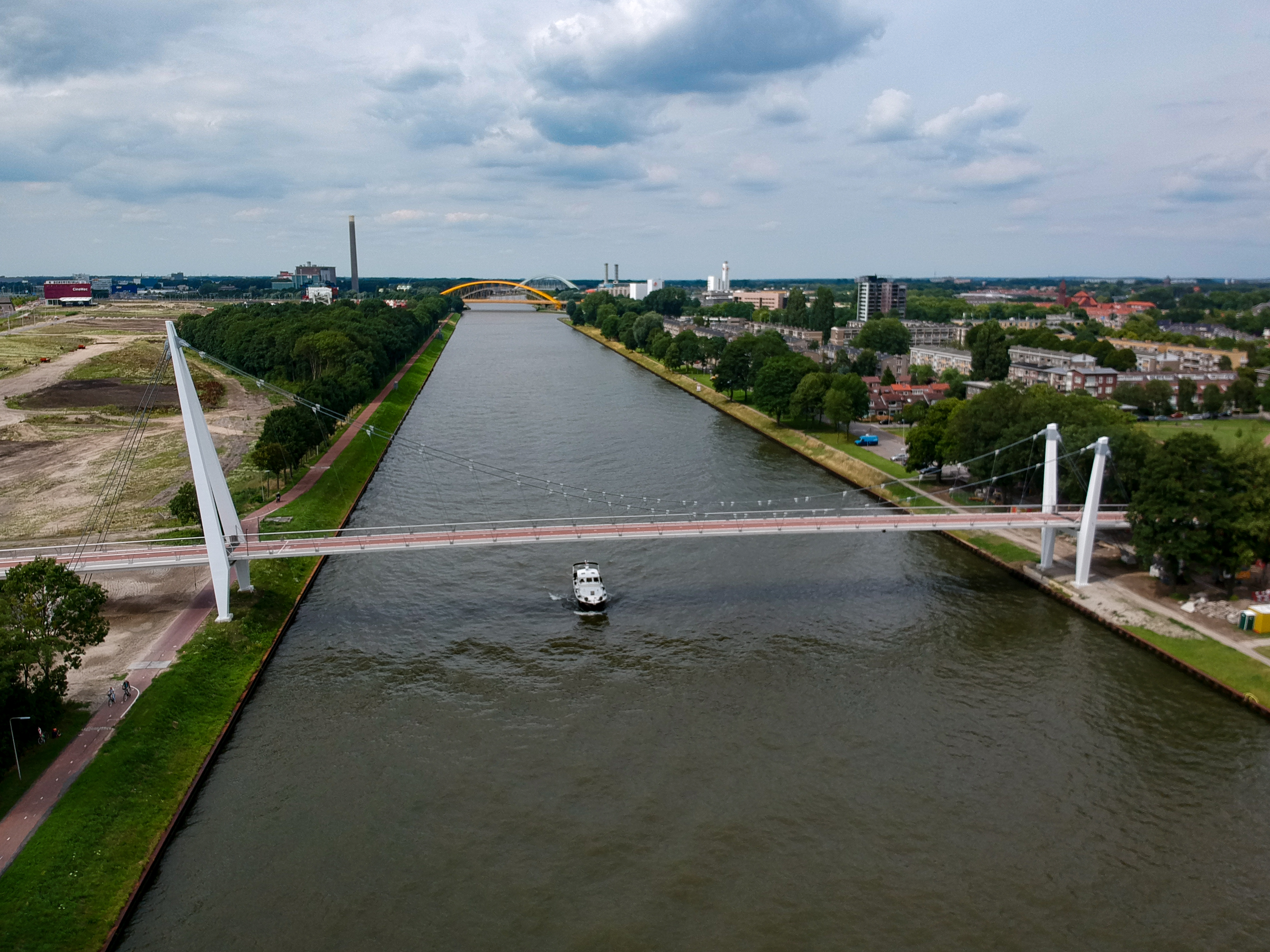 Dafne Schippersbrug on 15 July 2017.